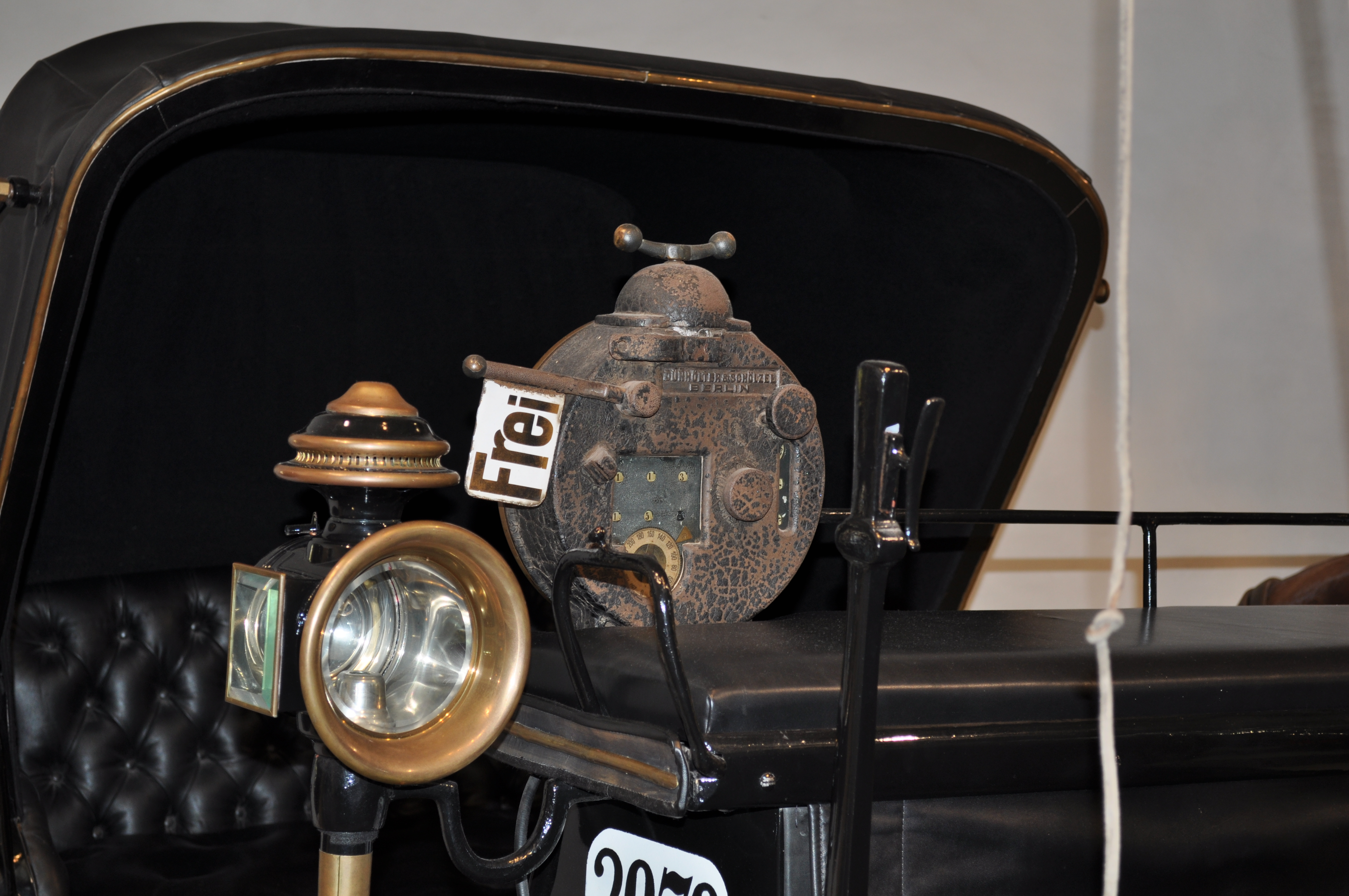 Historic Taximeter